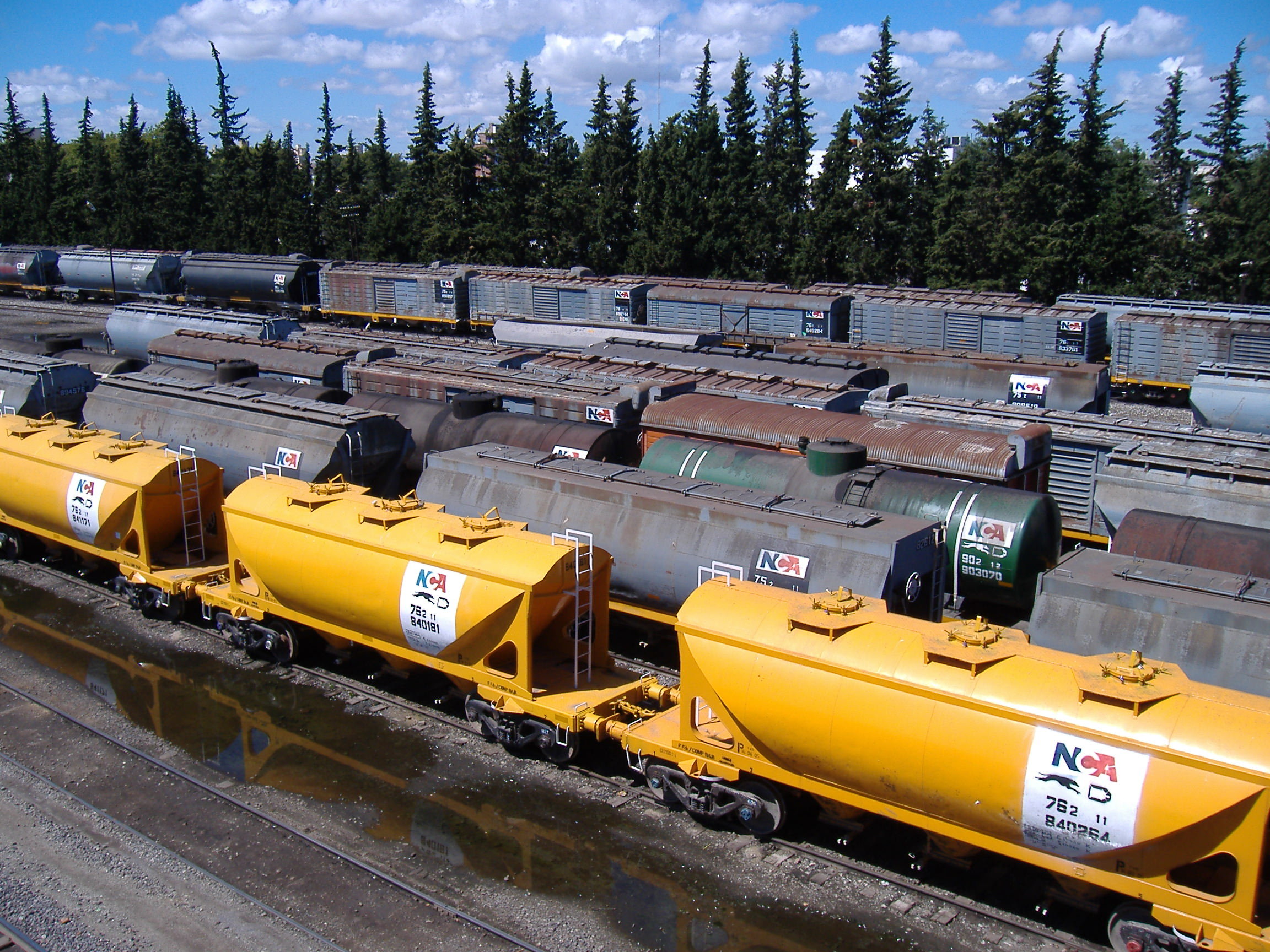 The Patio Parada, base of operations of the railway system in Rosario, Argentina, now managed by Nuevo Central Argentino railway company. The Patio is located on the Cruce Alberdi (Alberdi Cross, the confluence of Alberdi Avenue, on the north-east part of the city, with Salta St. and Bordabehere St.). This view is from the elevated Viaducto Avellaneda.